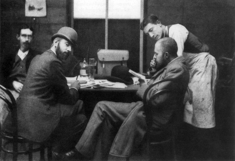 Philip Zilcken (1857-1930), Marius Bauer (1867-1932) and Jan Veth (1864-1925) are checking Etchings.